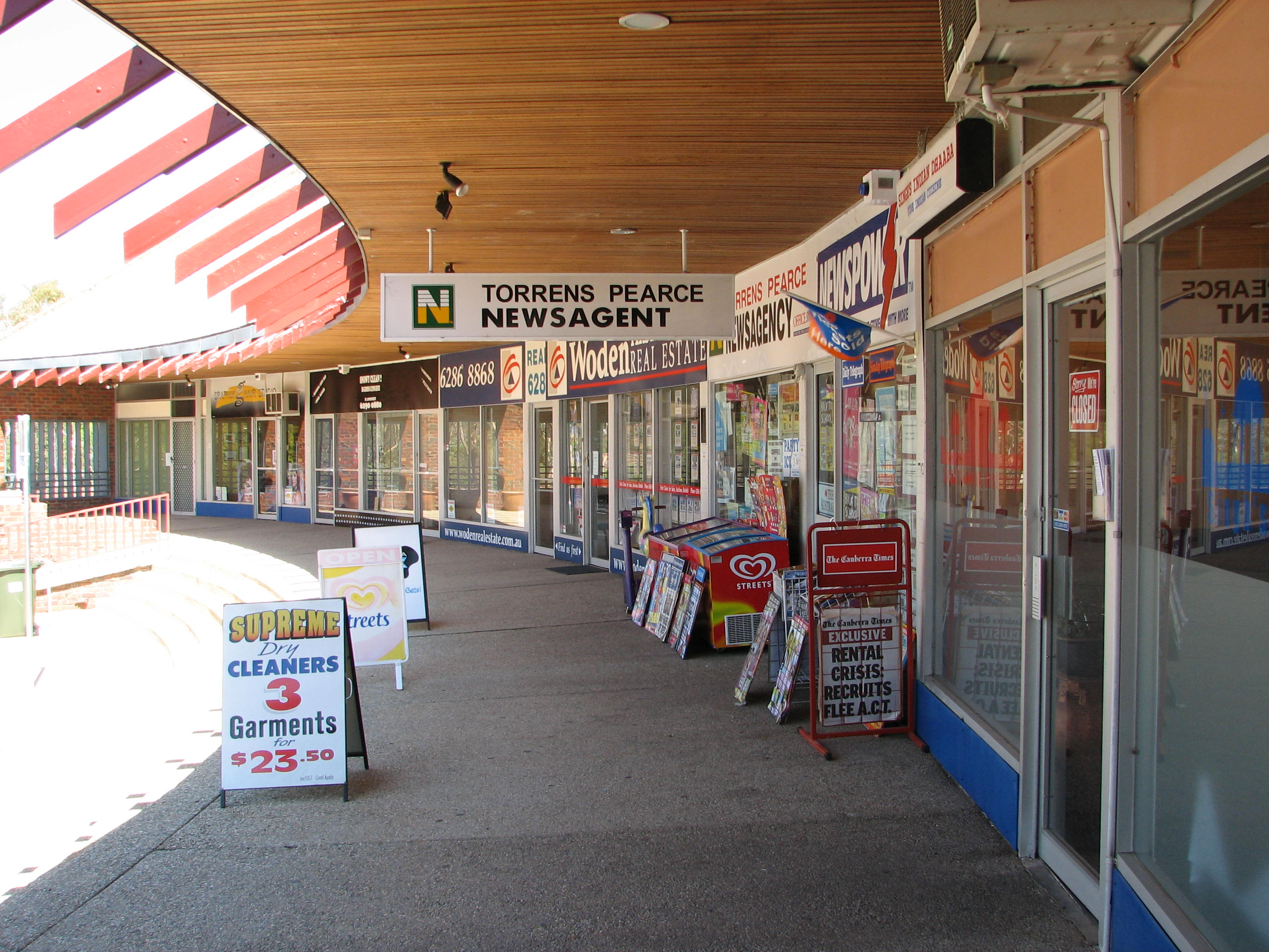 Local shops in Torrens, Australian Capital Territory. Taken by me - Tim Malone - on 20th January 2007.